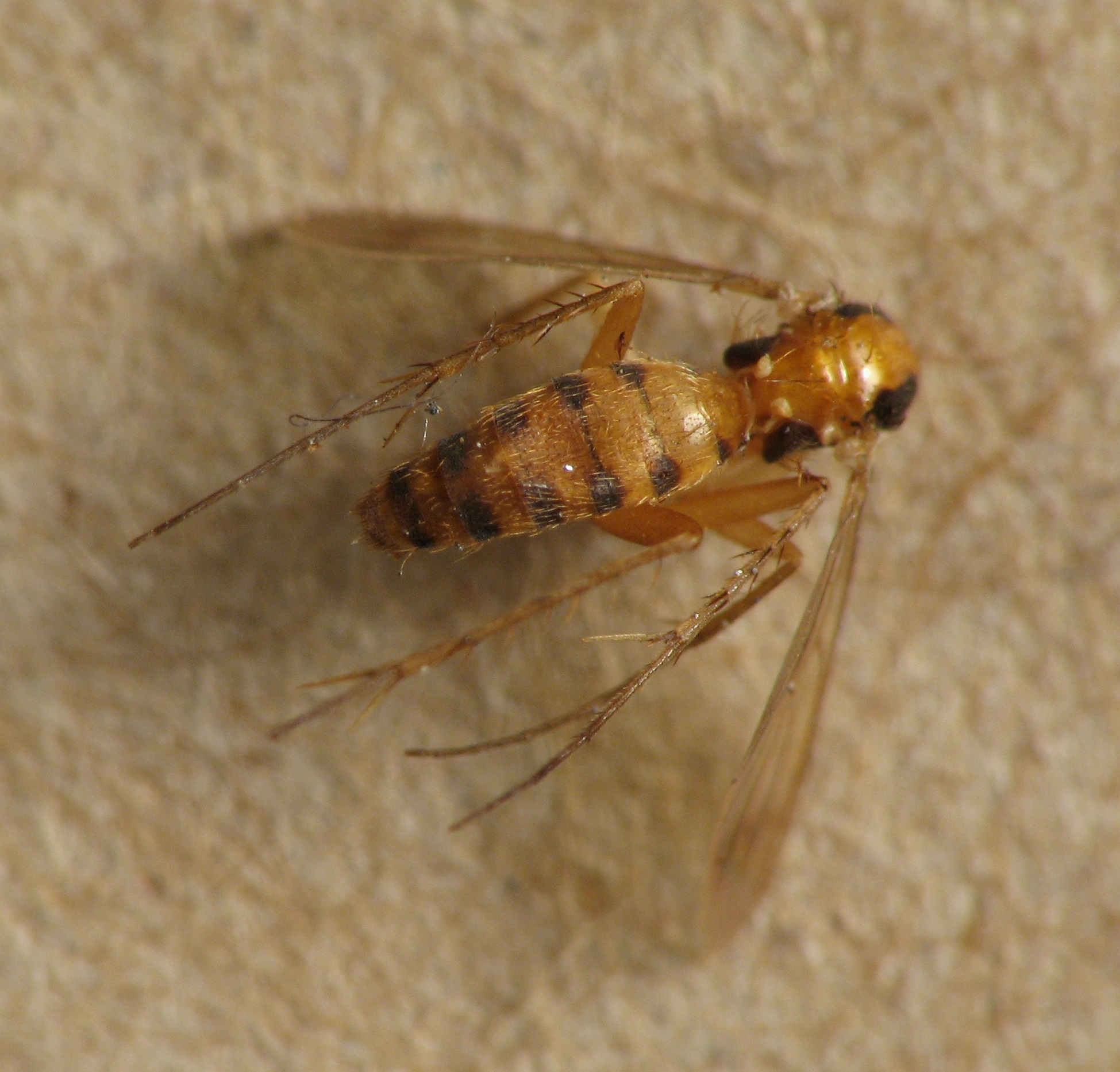 Leia bivittata, a fungus gnat, dorsal view, bet.4-8 mm. Willow Grove, Montgomery County, Pennsylvania, USA.